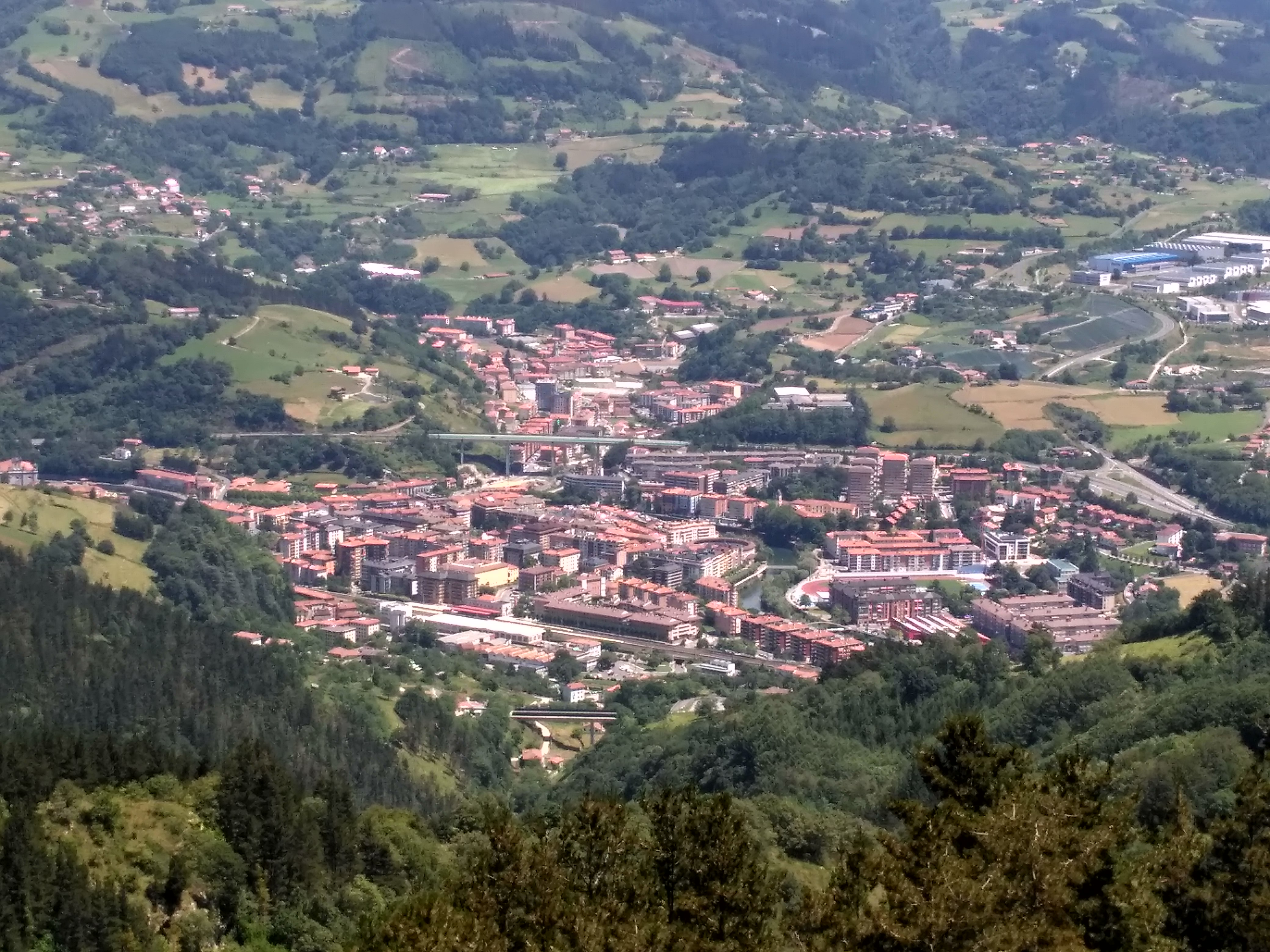 TolosaEuskara: Tolosa eta Ibarra udalerrien ikuspegia Urkizu auzoaren ingurutik.